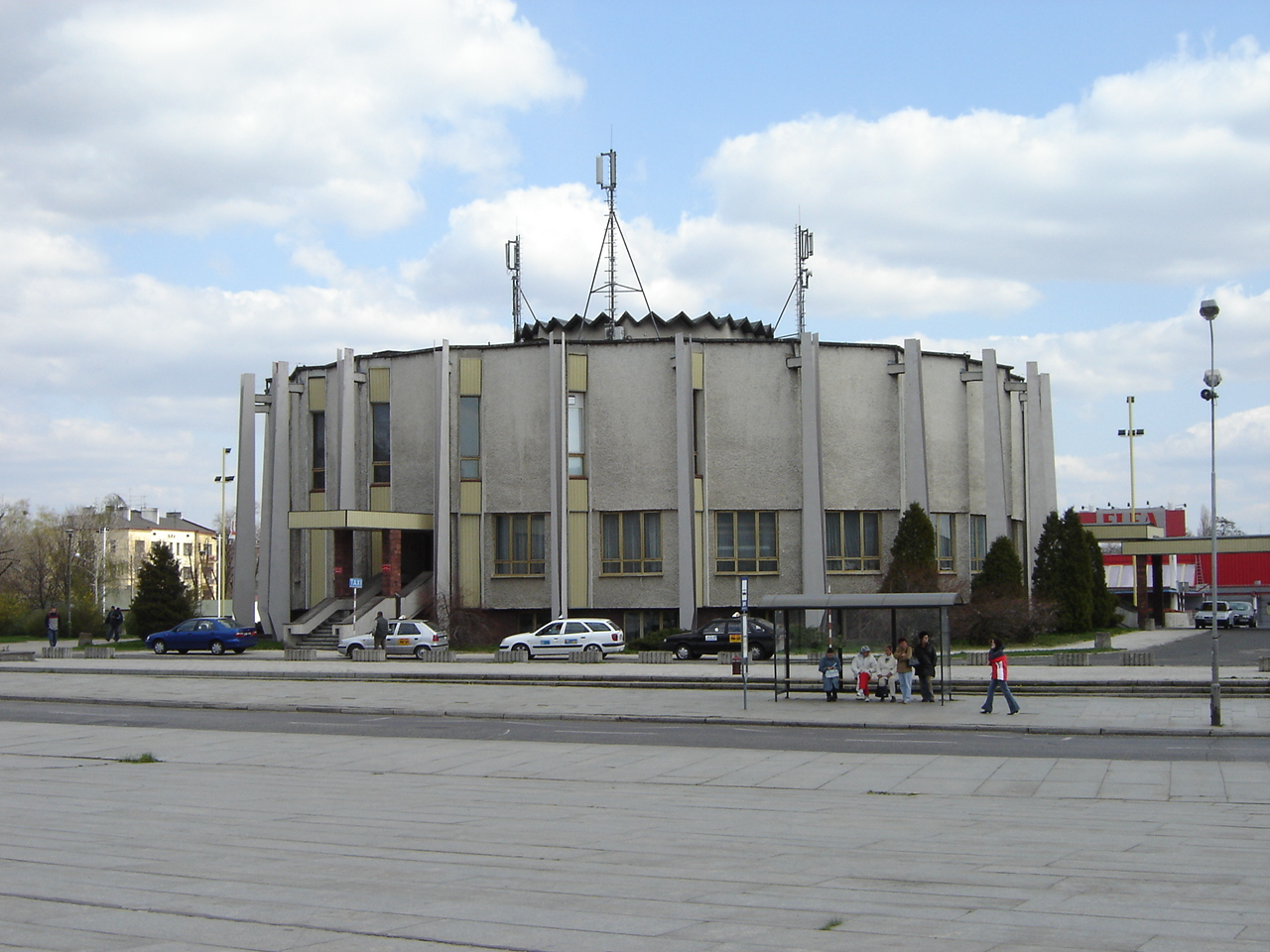 Silesian Street in Częstochowa, Wedding Palace